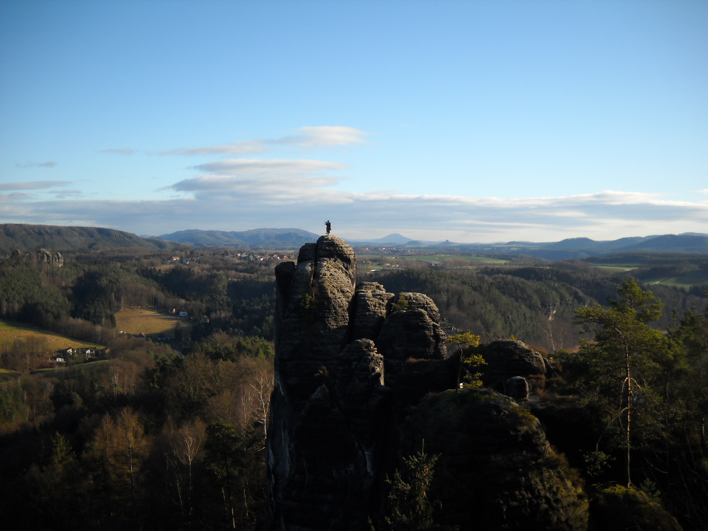 Mönch (monk) rock formation in the Sächsische Schweiz (Saxon Switzerland), Germany. View from Felsenburg Neurathen / Bastei with Großer Winterberg and Růžovský vrch, Czech Republic, in the background.